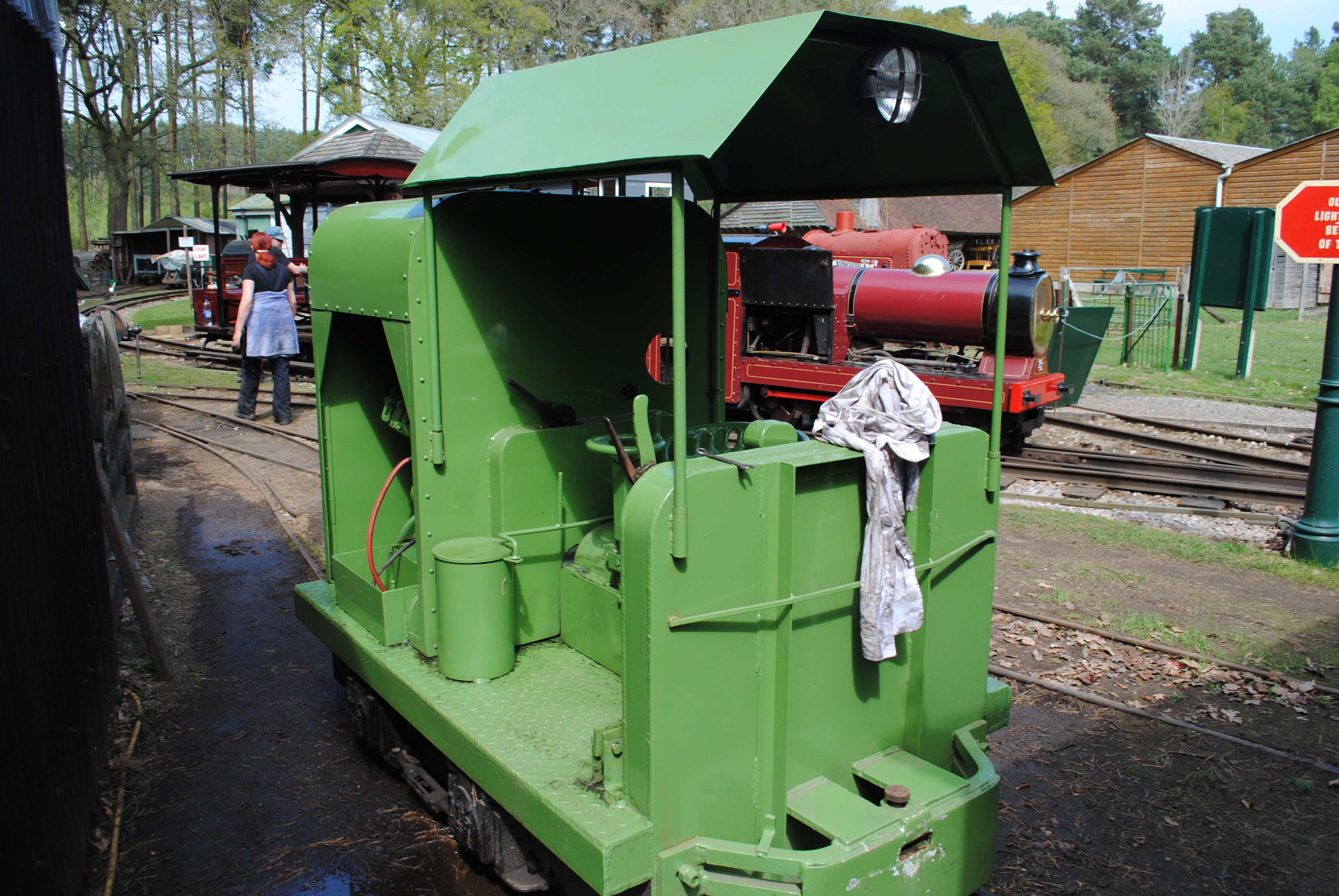 This small, odd-looking locomotive was built in 1955 and worked at the Belgian Brickworks in Rumpst